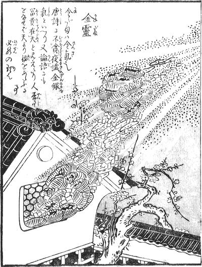 Kanedama (金霊, the spirit of money) from the Konjaku Gazu Zoku Hyakki (今昔画図続百鬼)